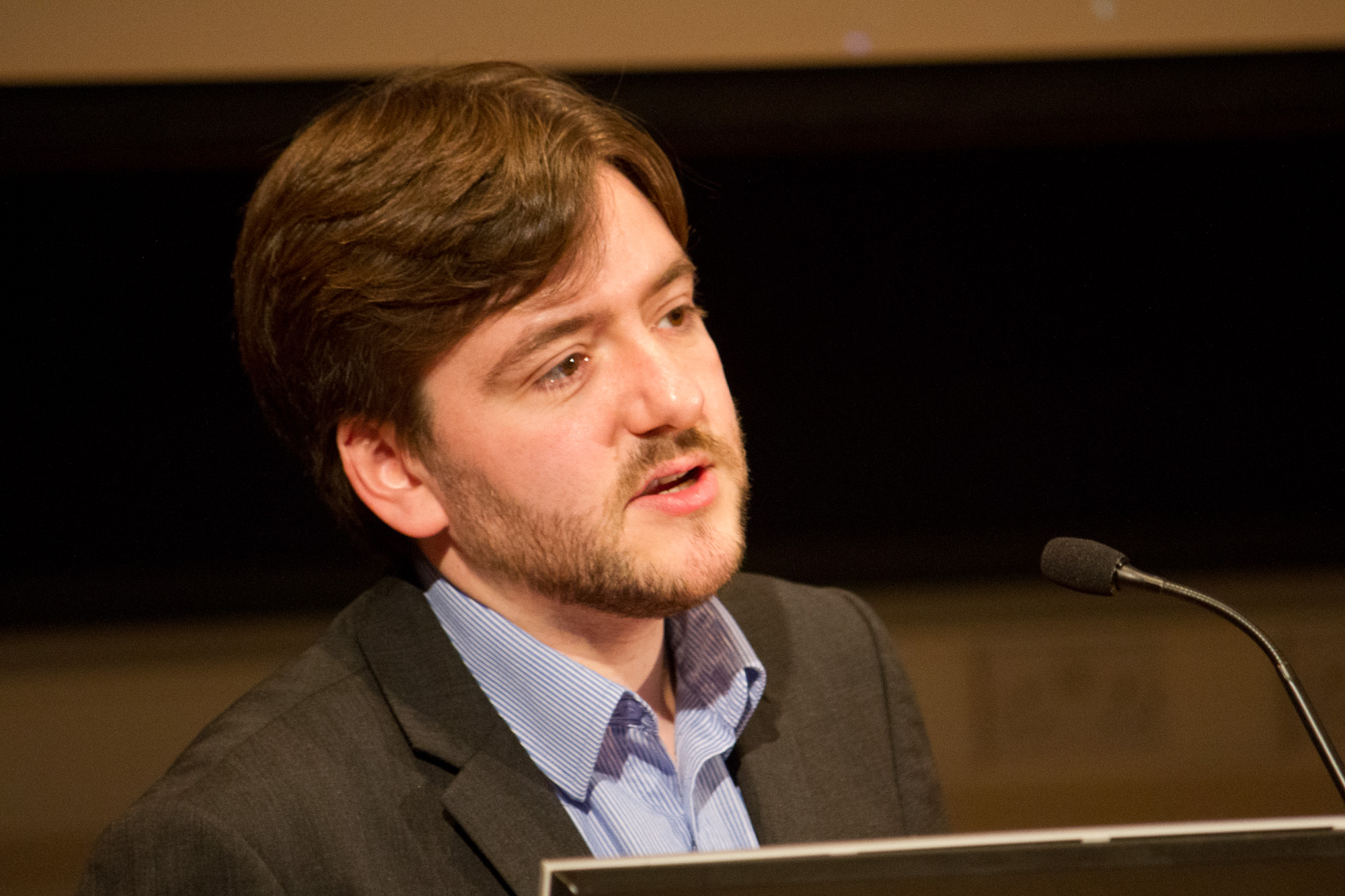 British Humanist Association chief executive Andrew Copson introducing the 2012 Voltaire Lecture.